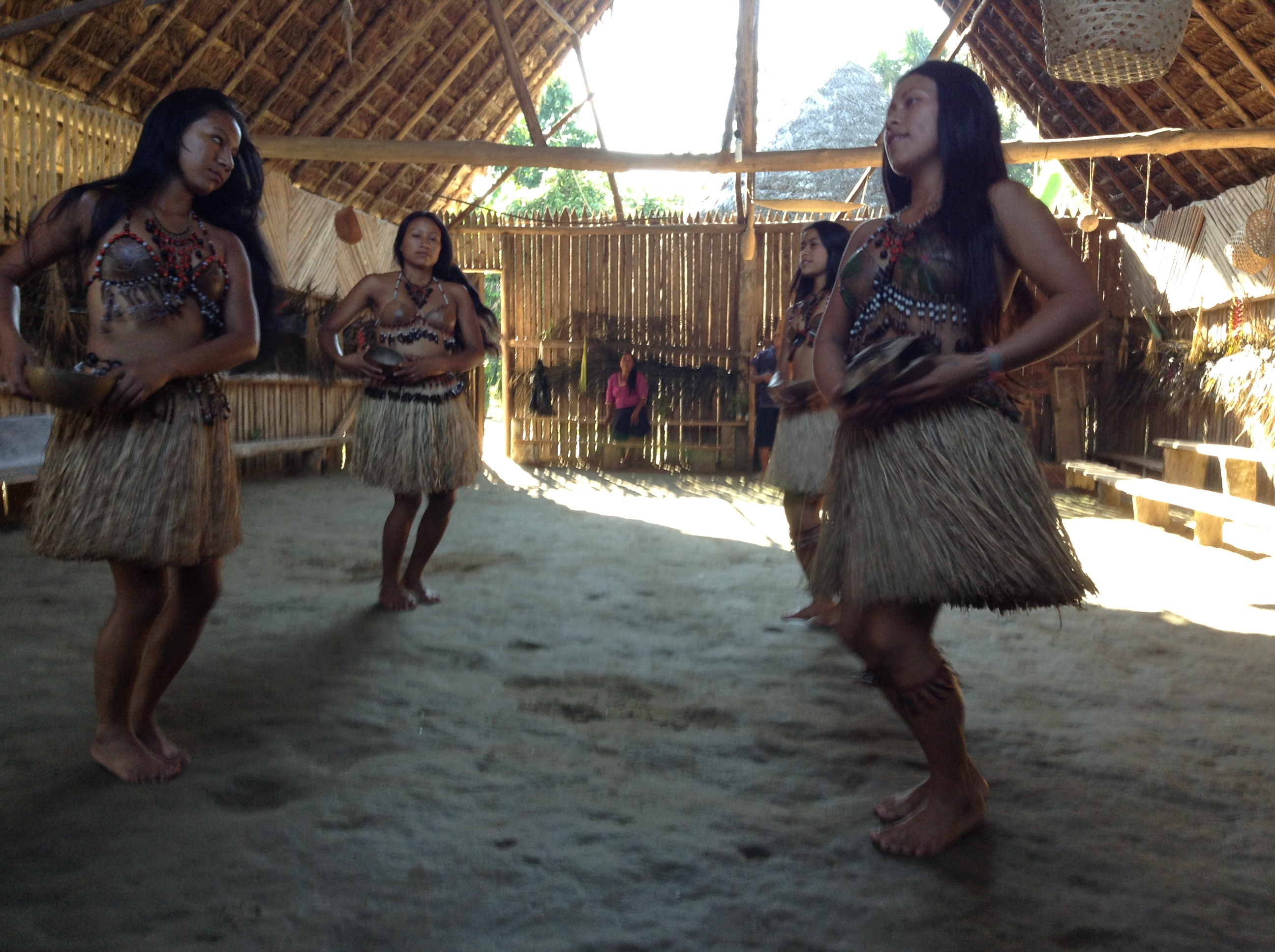 Tribal dancers off of Napo River, Ecuador